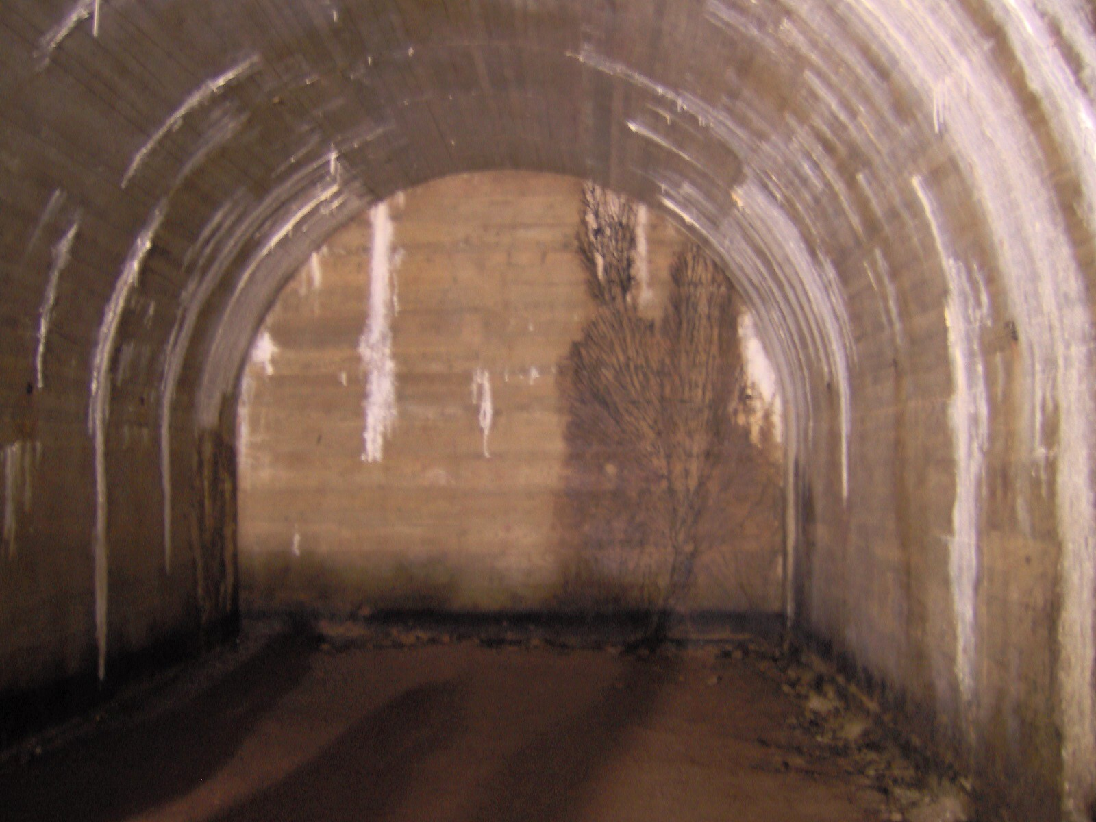 Stachelberg fortress, Trutnov District, Czech Republic